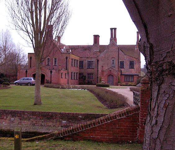 View of Smallbridge Hall ... ... from across the moat